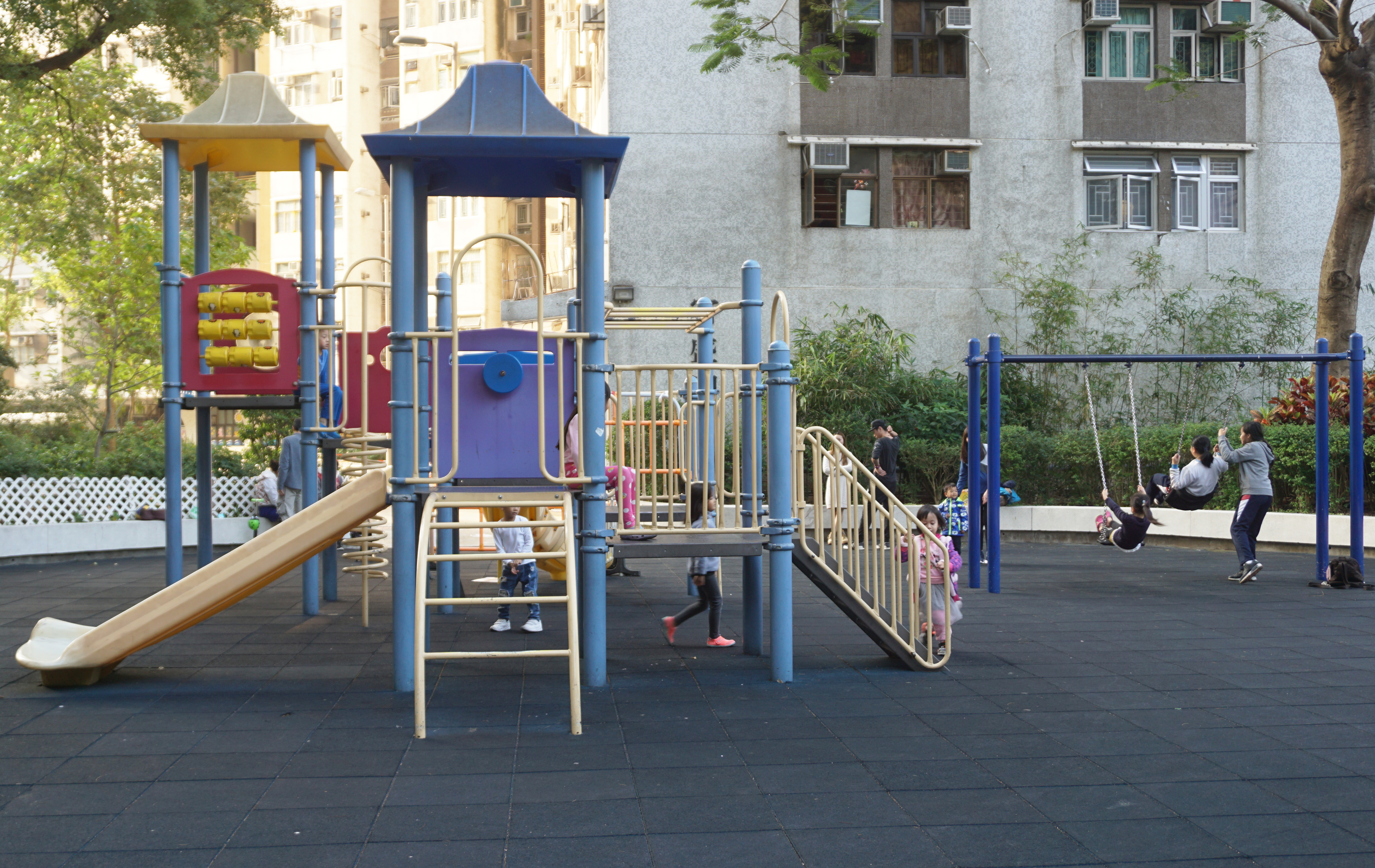 Fung Shing Court in Sha Tin Tau, Hong Kong.